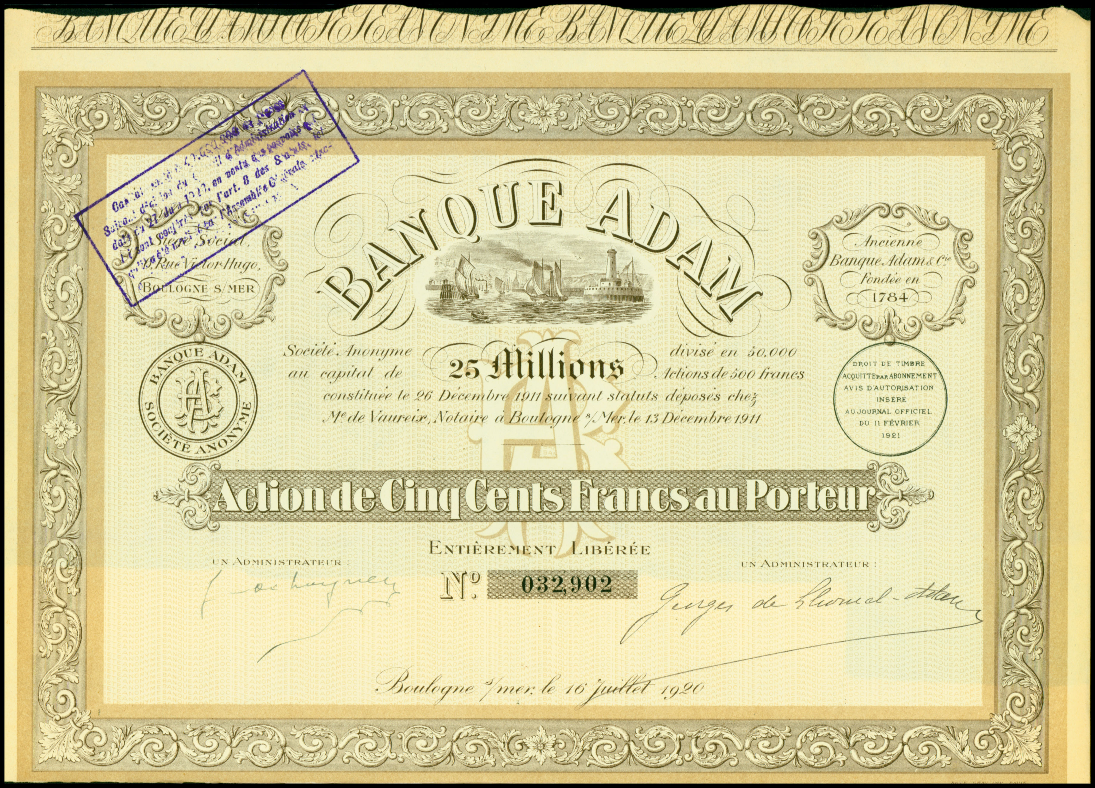 Share of the Banque Adam, issued 16. July 1920